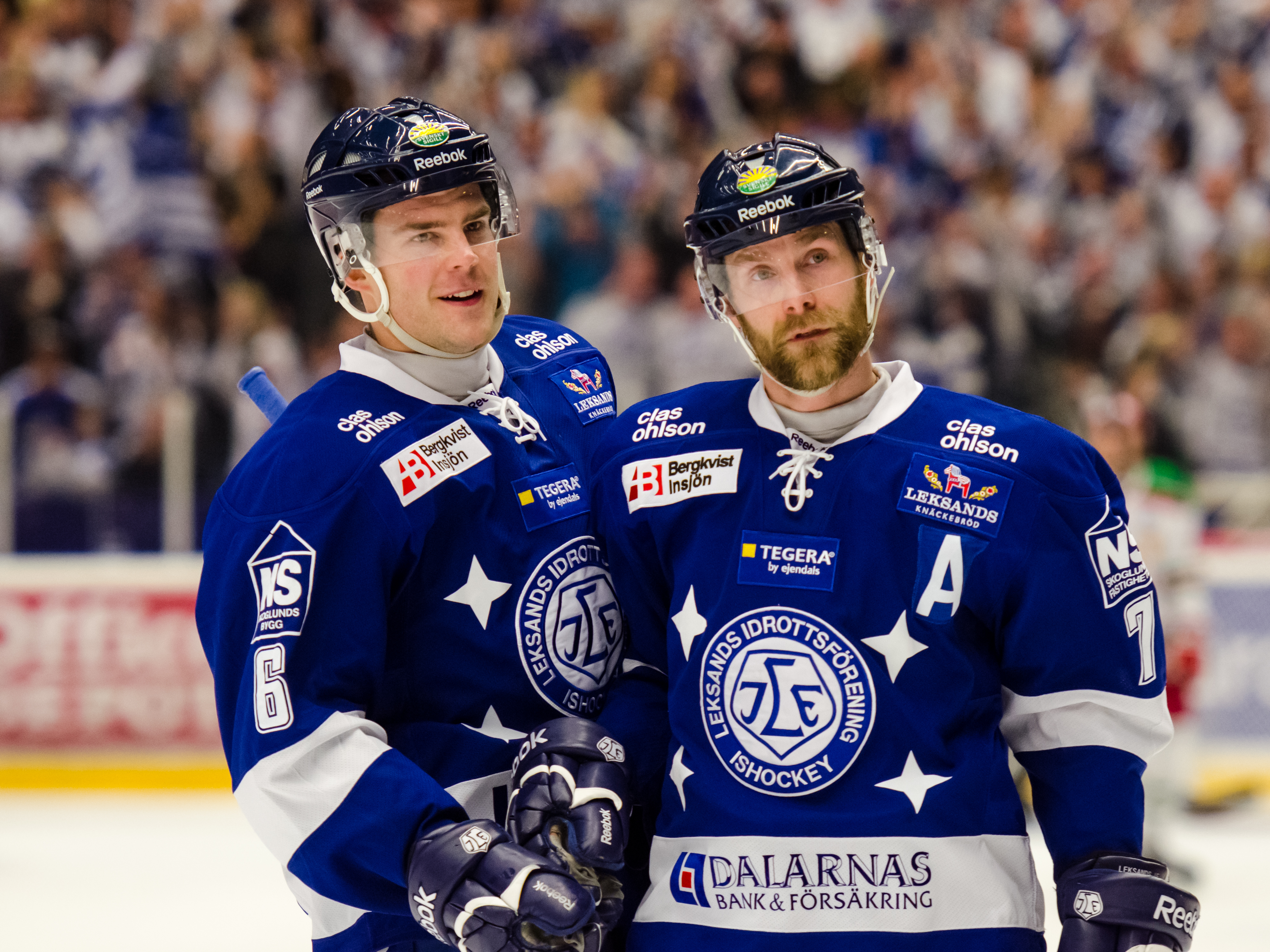 Patrik Hersley (#6) and Johan Svedberg (#7) playing for Leksands IF in Hockeyallsvenskan (Swedish second league) against Mora IK 2012-12-29.